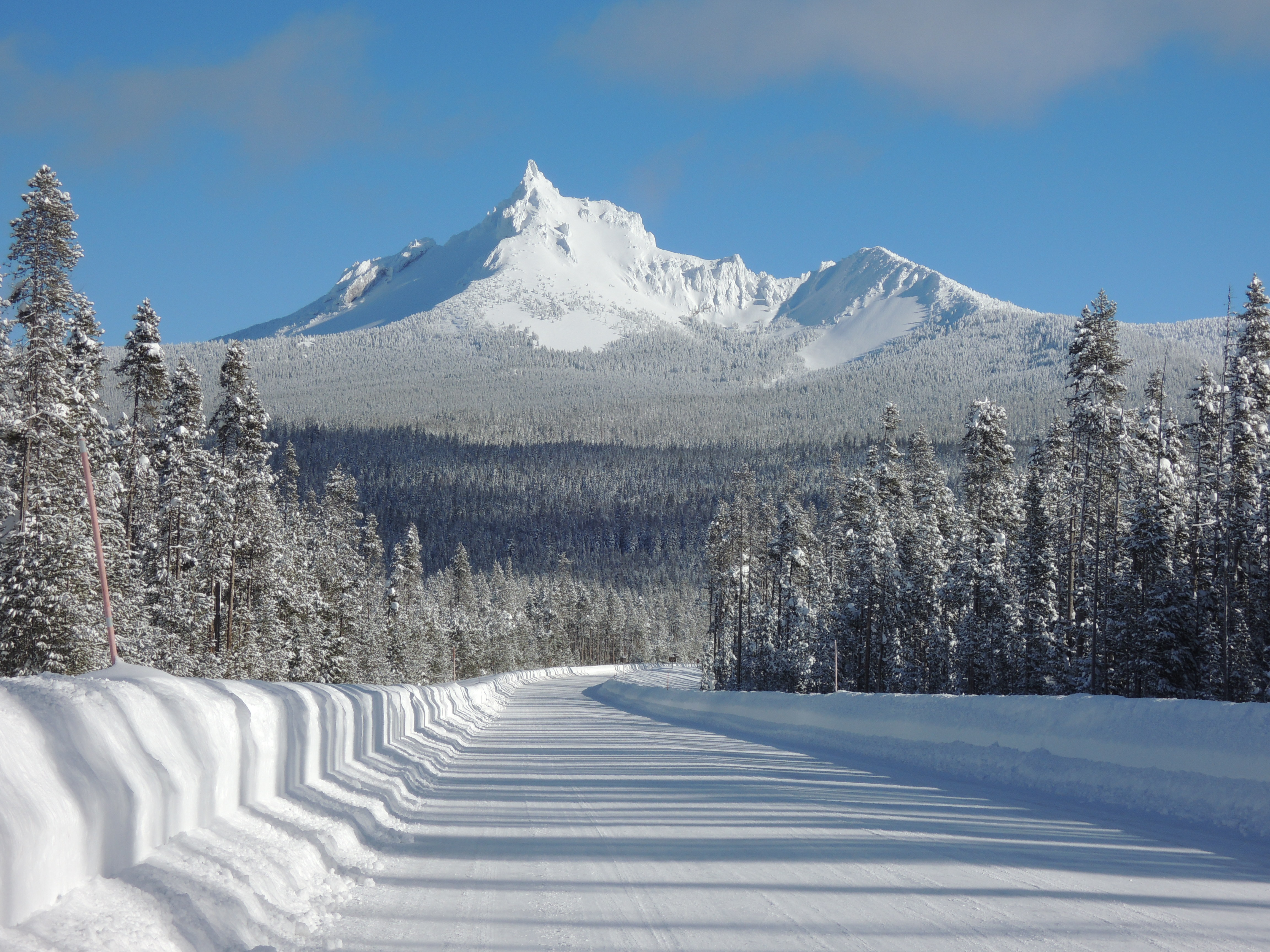 Mt. Thielsen from Oregon 230